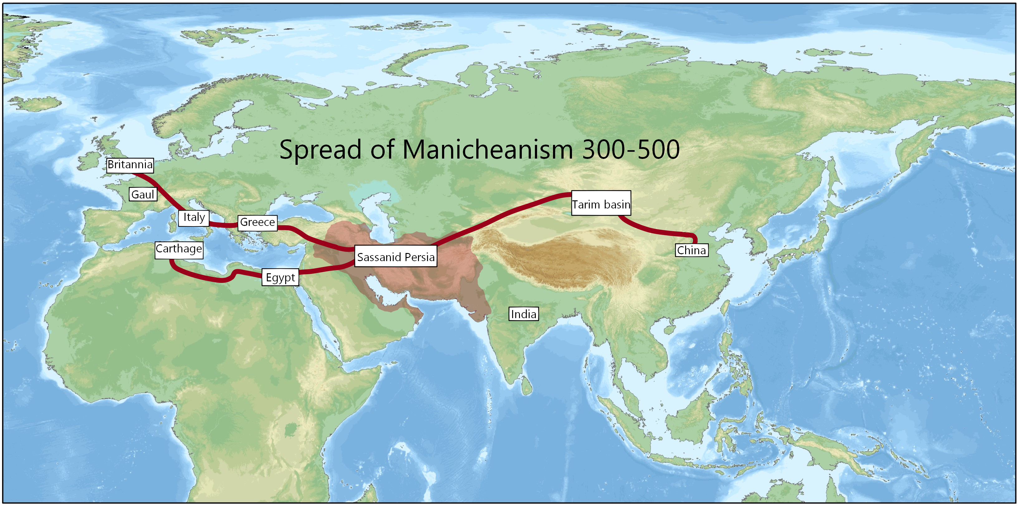 Map showing the spread of Manicheanism. Note: The land shown around the center of the map is not the Sassanian Empire but where there was Manichean influence in the area.